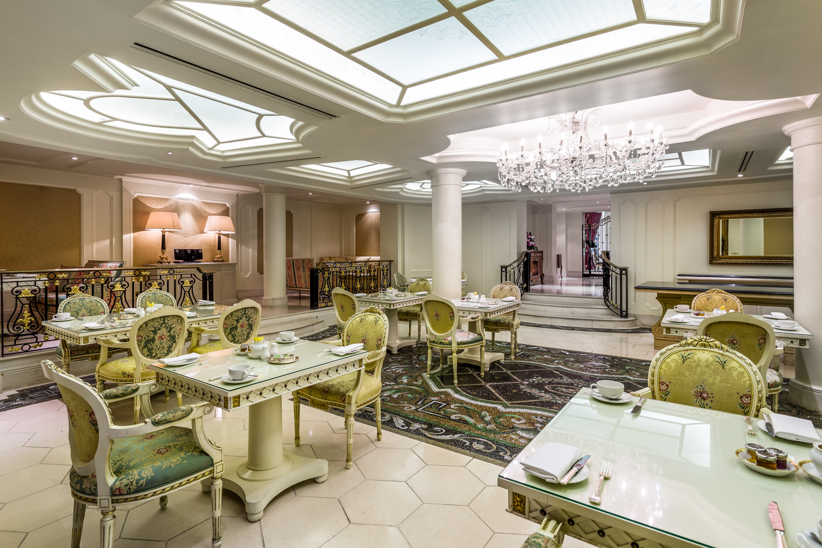 Peridot Brasserie, The Bentley London